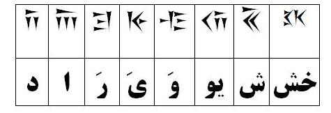 Name of Darius in Old Persian cuneiform, with Modern Persian transliteration